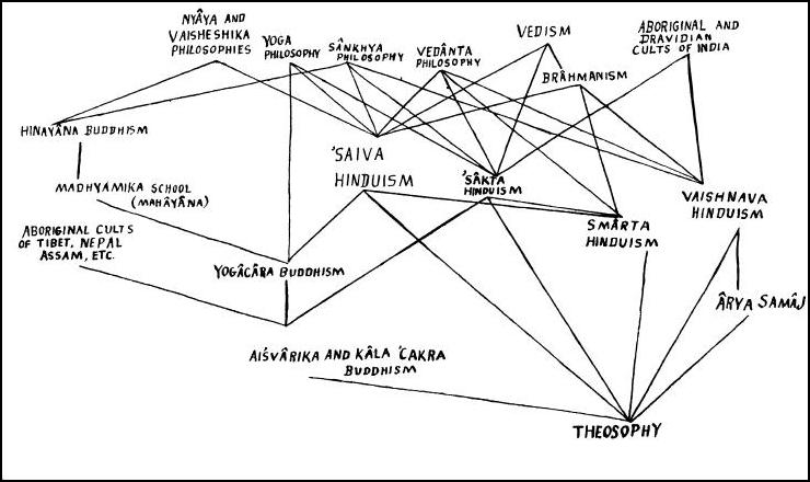 A diagram from an article by Merwin Marie Snell.